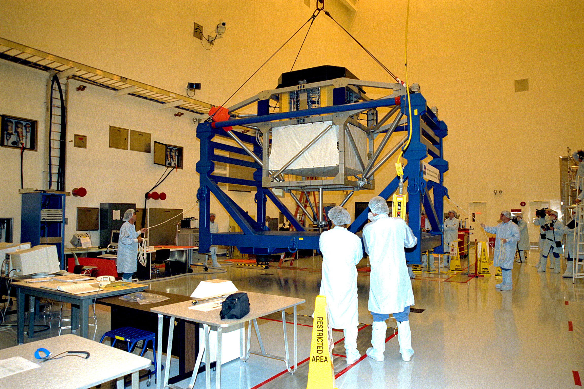 STS-91 AMS-01 payload moved from MPPF to SSPFThe alpha-magnetic spectrometer (AMS-1) is lifted in KSC's MultiPayload Processing Facility in preparation for a move to the Space Station Processing Facility via the Payload Environmental Transportation System. The STS-91 payload arrived at KSC in January and is scheduled to be flown on the 9th and final Mir docking mission, scheduled for launch in May. The objectives of the AMS-1 investigation are to search for anti-matter and dark matter in space and to study astrophysics. The STS-91 flight crew includes Commander Charles Precourt; Pilot Dominic Gorie; and Mission Specialists Wendy B. Lawrence; Franklin Chang-Diaz, Ph.D.; Janet Kavandi, Ph.D.; and Valery Ryumin, with the Russian Space Agency. After docking with the Russian Space Station Mir, Mission Specialist Andrew Thomas, Ph.D., will join the STS-91 crew and return to Earth aboard Discovery.